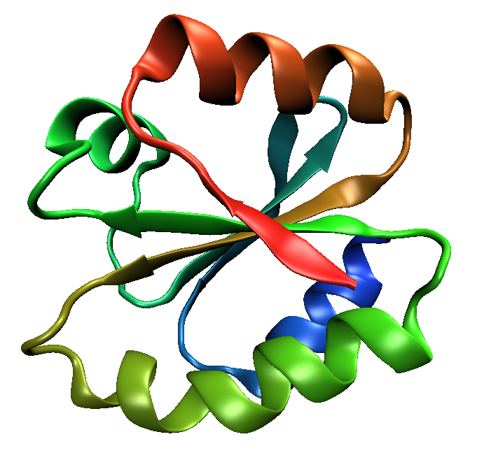 Image of one molecule of the human protein thioredoxin (PDB ID 1ERT), a representative of the thioredoxin protein fold class.